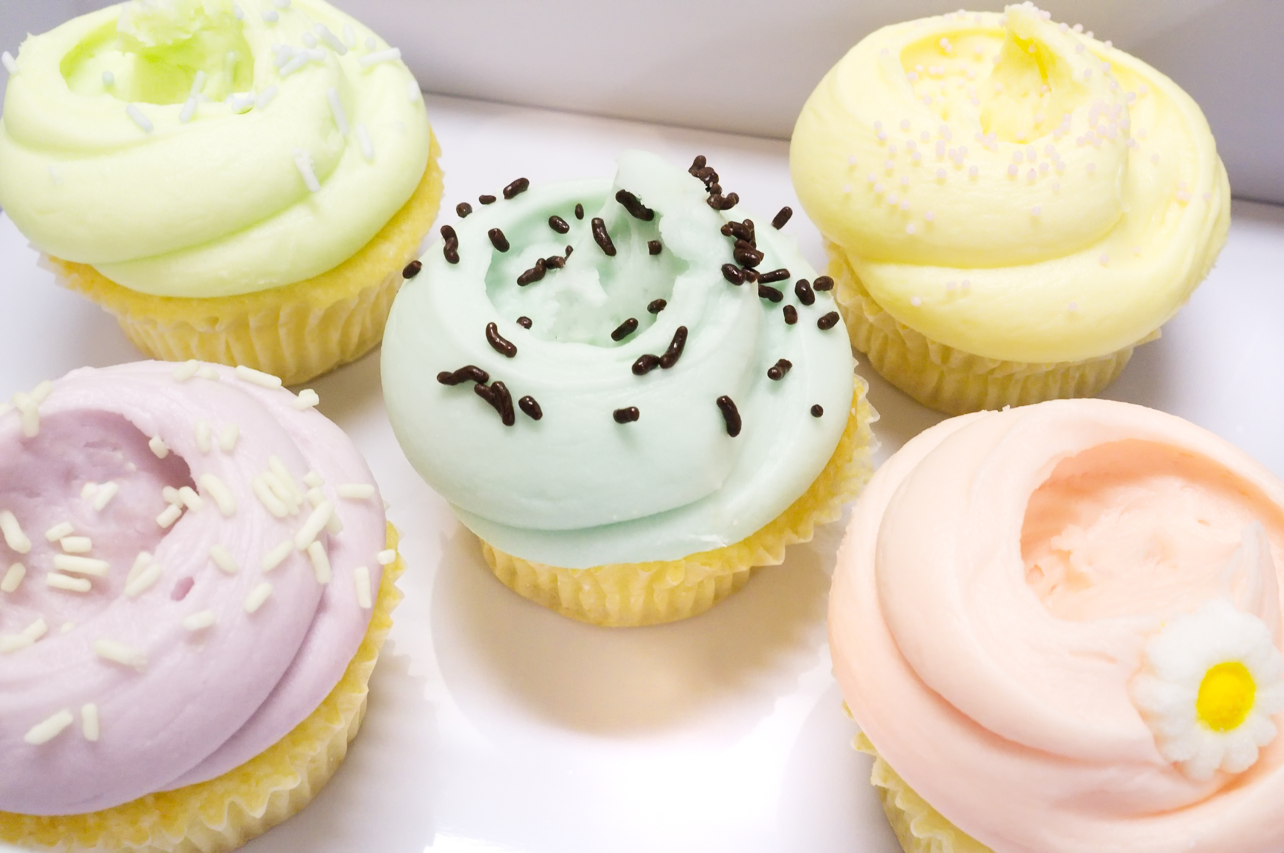 Vanilla Vanilla Cupcakes from the Magnolia Bakery. We ordered these six cupcakes from the Magnolia Bakery online store. They arrived overnight and were excellent. We ate one cupcake before the picture. Never thought we'd be ordering cupcakes from New York delivered to Alabama. We also ordered the Magnolia Signature Tin in which they're sitting.